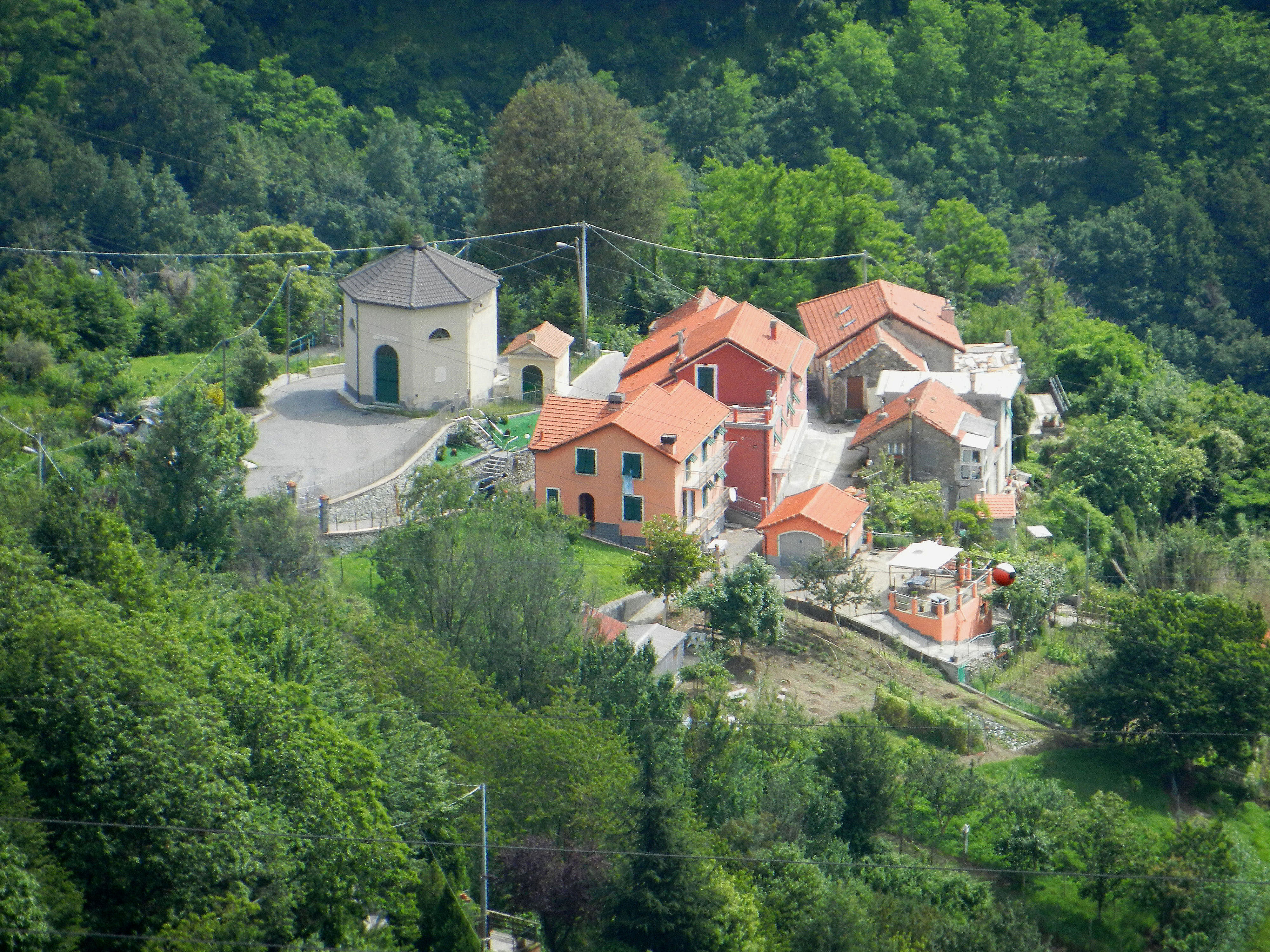 Ceranesi (province of Genoa, Italy), the village of Pareti and the chapel of second apparition of N.S. della Guardia